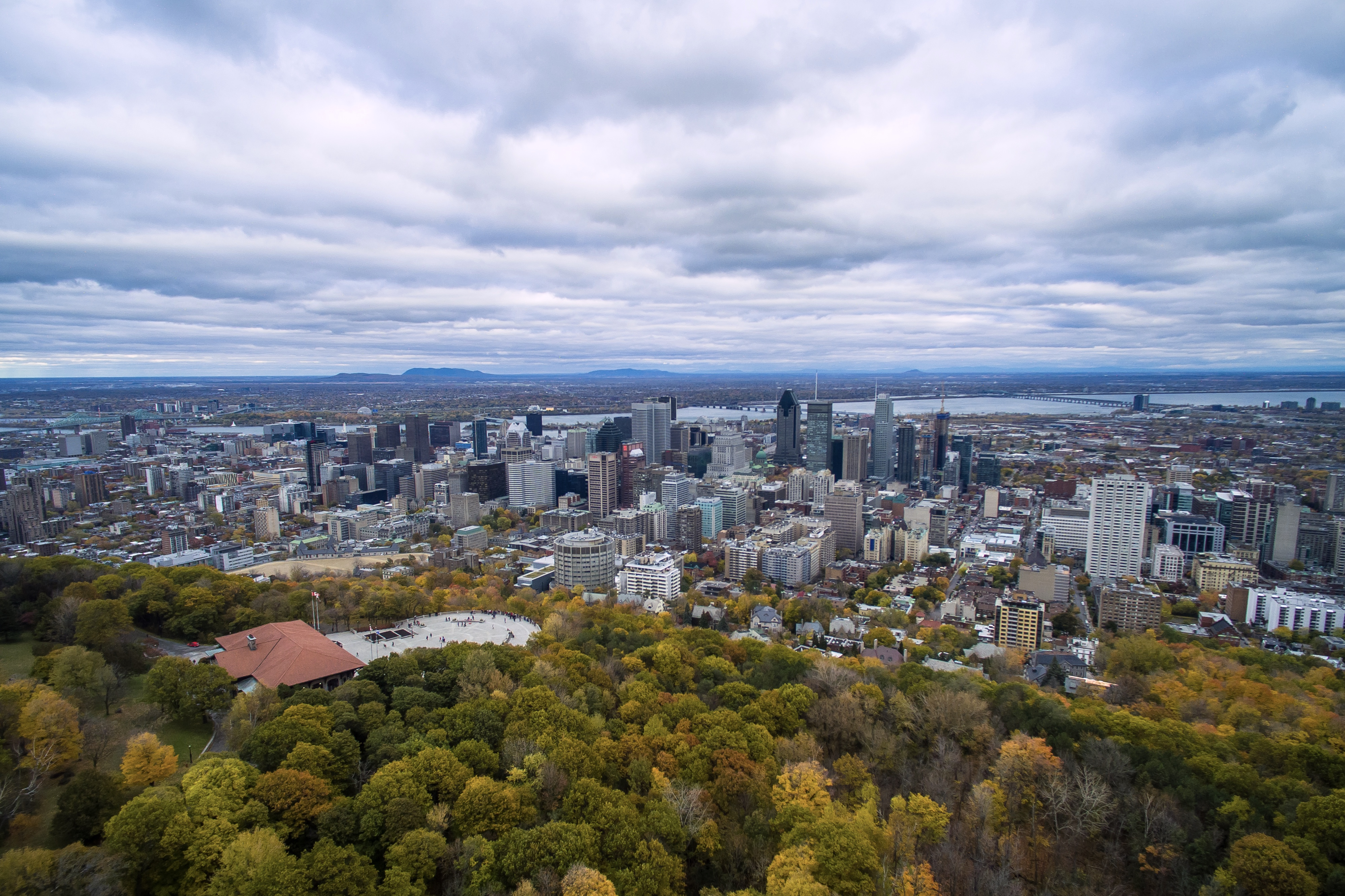 Aerial photo of downtown Montreal taken from above Mount Royal. The Kondiaronk Belvedere can be seen near the bottom left.